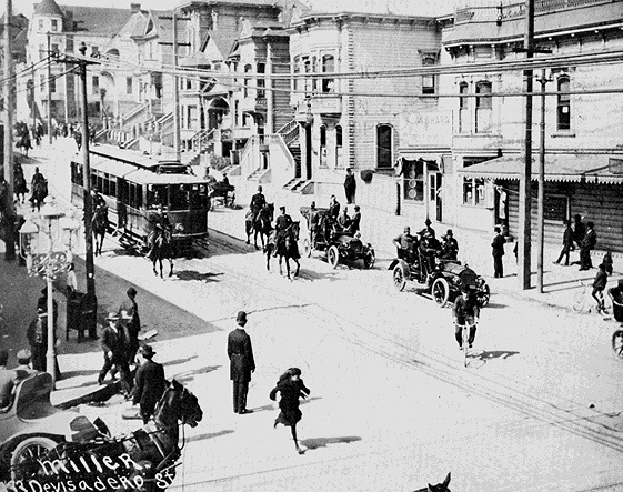 San Francisco police escort a scab streetcar to protect it from the violence that erupted repeatedly during the 1907 streetcar strike. Photo is original from the San Francisco History Room, San Francisco Public Library.